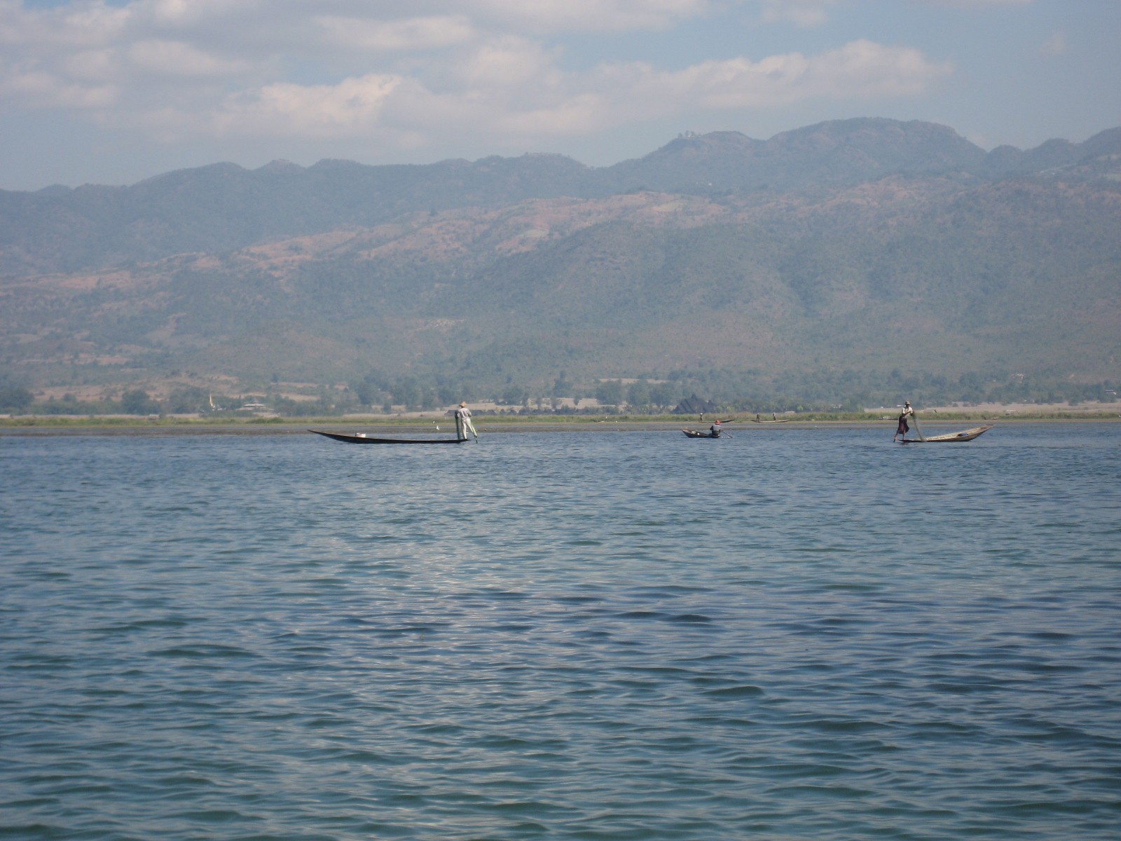 Leg-rowers of Inle Lake